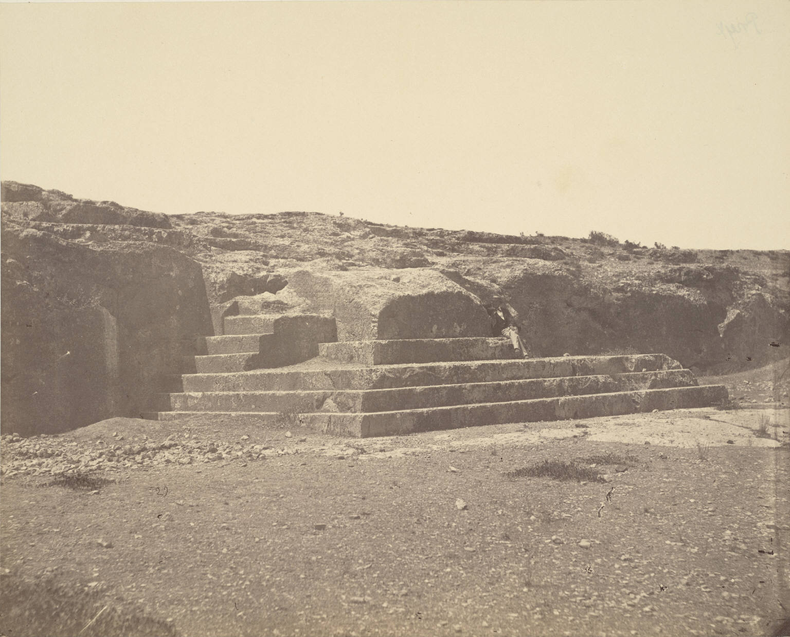 Collection: A. D. White Architectural Photographs, Cornell University Library Accession Number: 15/5/3090.00024 Title: Pnyx Photograph date: ca. 1865-ca. 1895 6th BC-4th BC Location: Europe: Greece; Athens Materials: albumen print Image: 8 x 10 in.; 20.32 x 25.4 cm Style: Greek Provenance: Transfer from the College of Architecture, Art and Planning Persistent URI: There are no known U.S. copyright restrictions on this image. The digital file is owned by the Cornell University Library which is making it freely available with the request that, when possible, the Library be credited as its source. We had some help with the geocoding from Web Services by Yahoo!